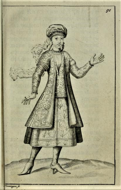 Customs: Women's clothing (Qizilbash) in Safavid Persia Published in Voyage, ou relation de l'etat present du royaume de Perse in 1695